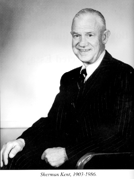 Official portrait of Sherman Kent.